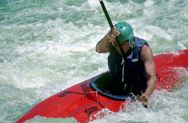 Sport kayaker at Great Falls, Virginia.